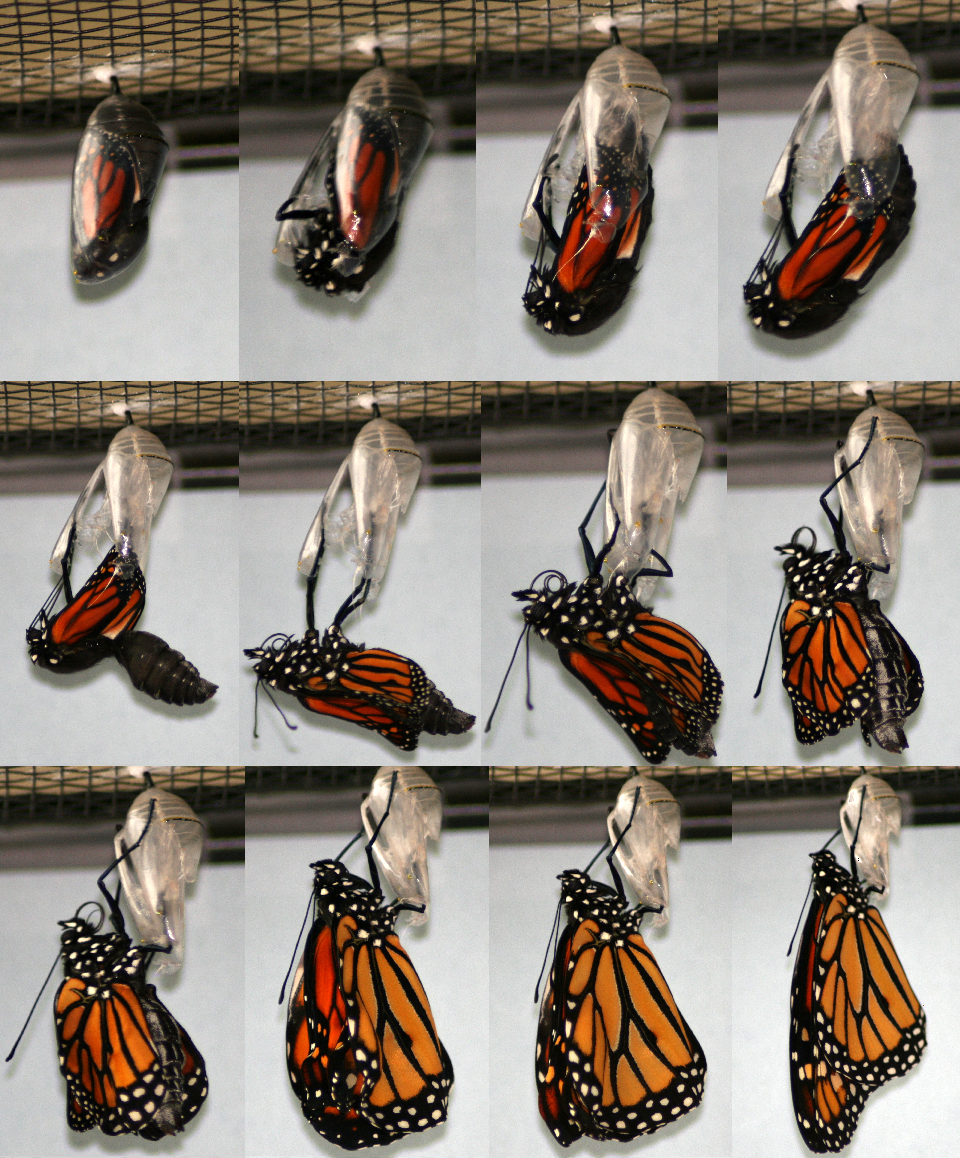 A Monarch (Danaus plexippus) eclosing from a chrysalis. It took about 15 minutes for the Monarch's wings to fully expand.